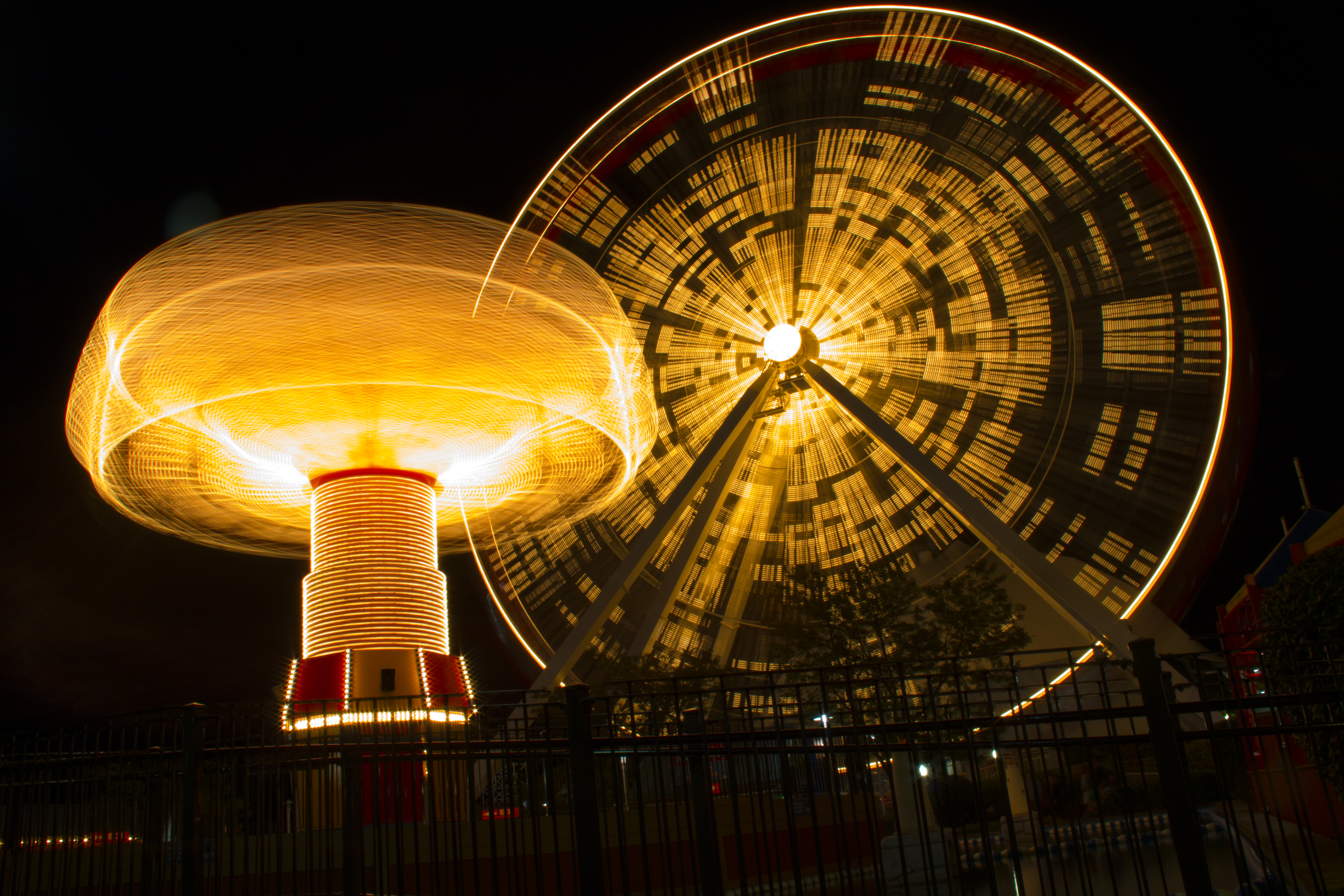 This is the iconic Navy Pier wheel which was put to retirement on 27th September 2015